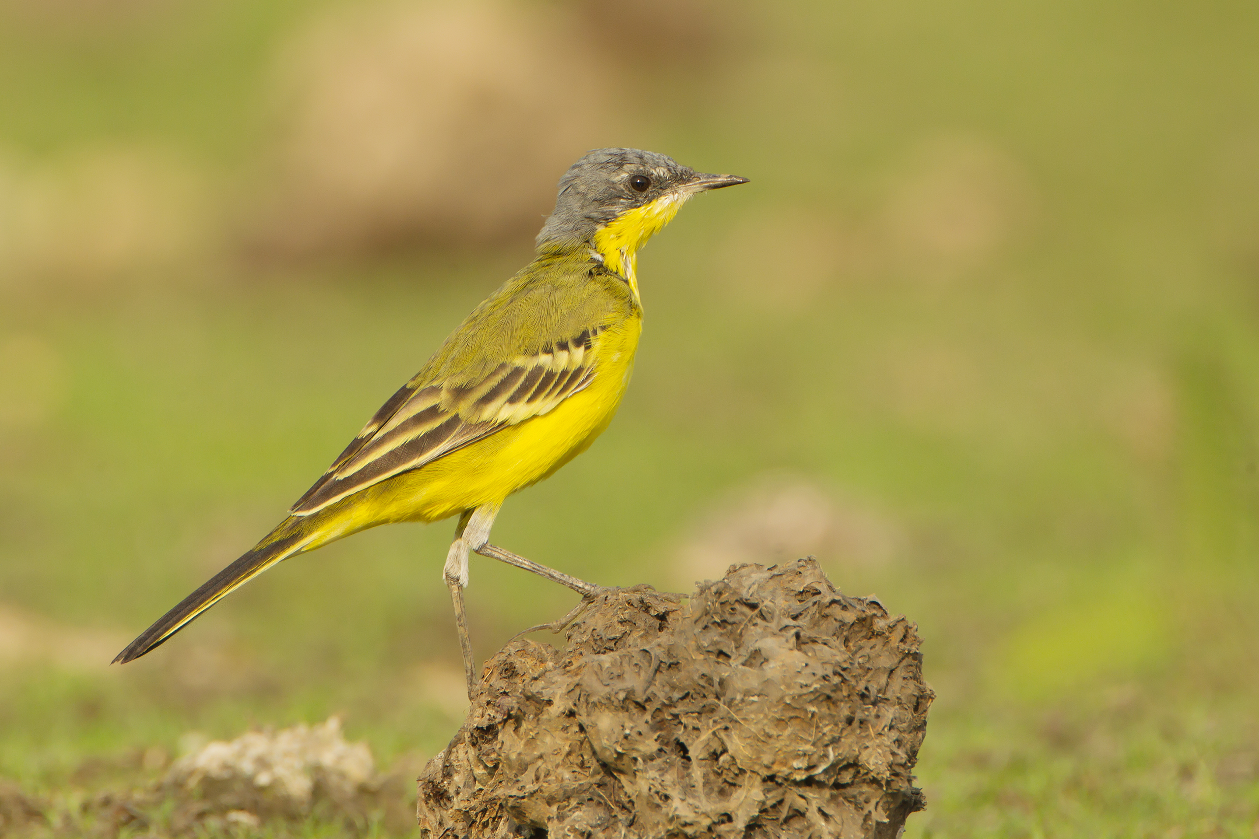 Yellow Wagtail Motacilla flava (probably M. f. plexa), Beung Borapet, Nahkon Sawan, Thailand